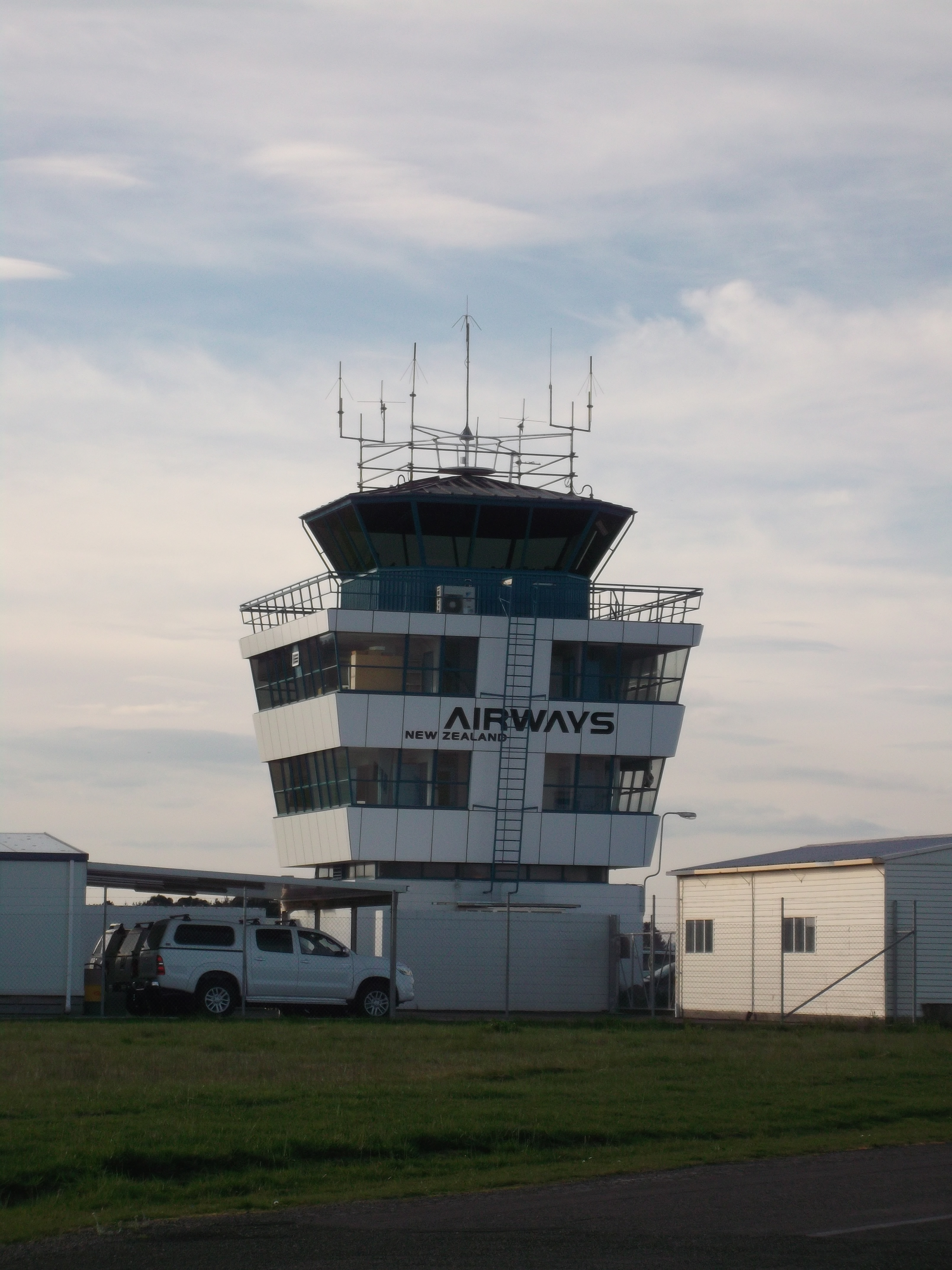 The air traffic control tower at Palmerston North International Airport (PMR).